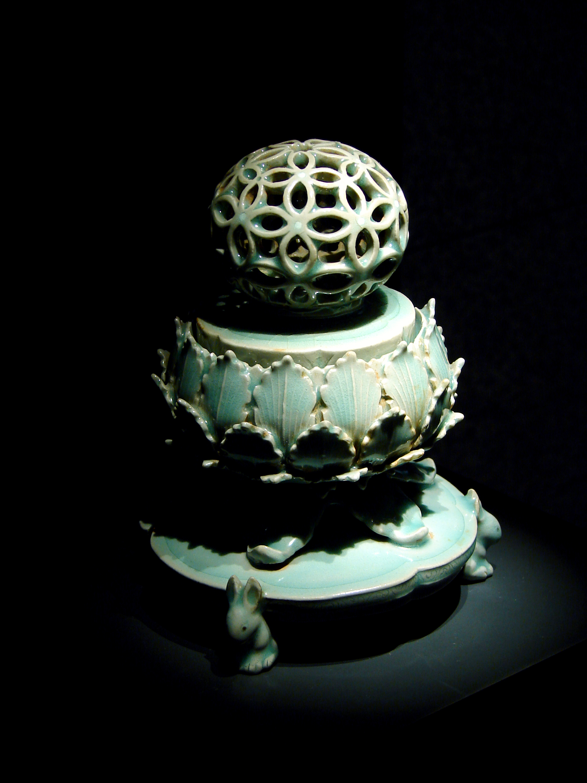 Celadon Incense Burner from the Korean Goryeo Dynasty (918-1392), with kingfisher glaze, is the National Treasure of South Korea #95 and is currently on display at the National Museum of Korea in Seoul. 12th century Korea.